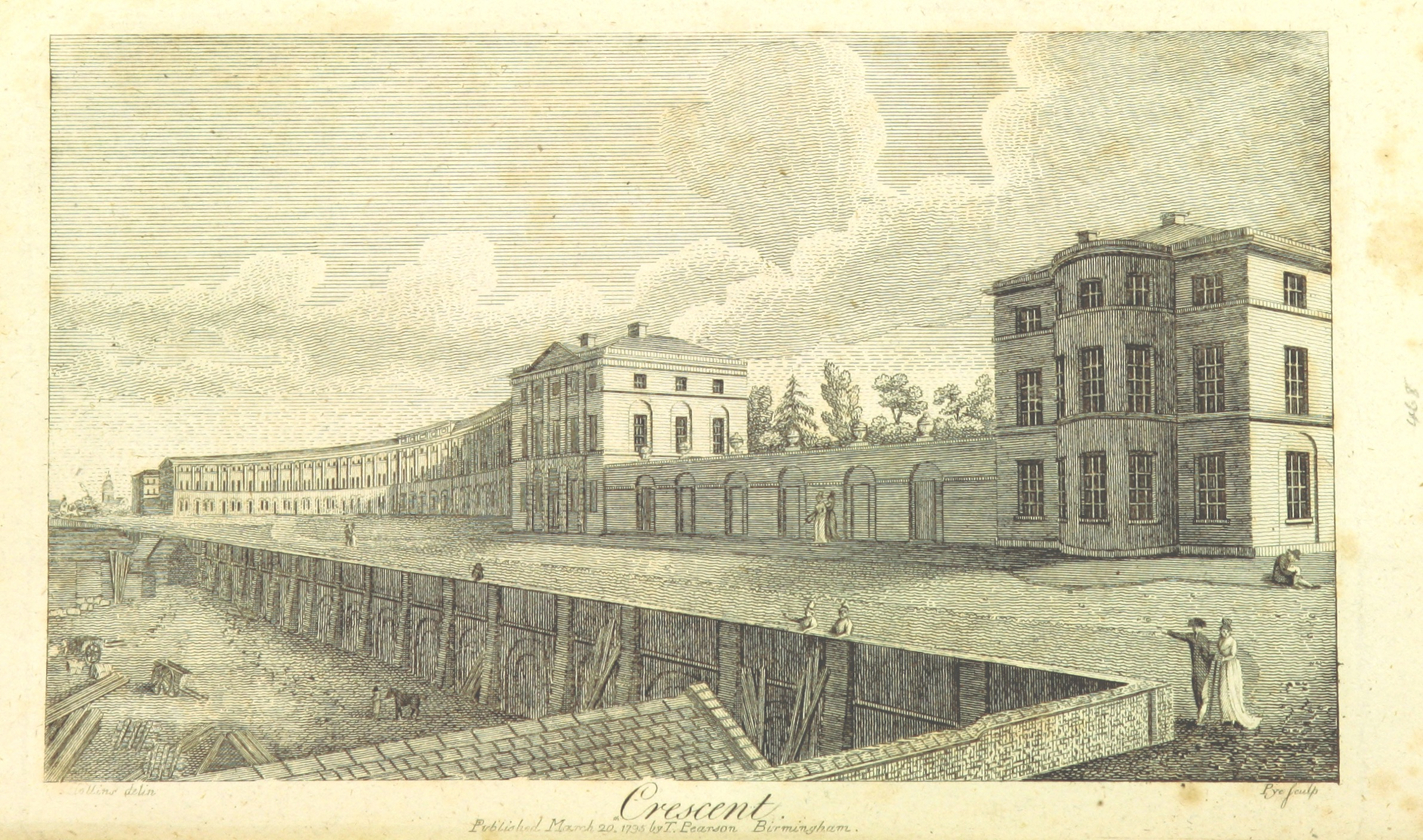 Artist's impression of The Crescent, a planned, but only ever partially completed (and since demolished), development in Birmingham, England. Image extracted from page 657 of An history of Birmingham ... With a new introduction by Christopher R. Erington.', by William Hutton. Original held and digitised by the British Library. Copied from Flickr. Note: The colours, contrast and appearance of these illustrations are unlikely to be true to life. They are derived from scanned images that have been enhanced for machine interpretation and have been altered from their originals.